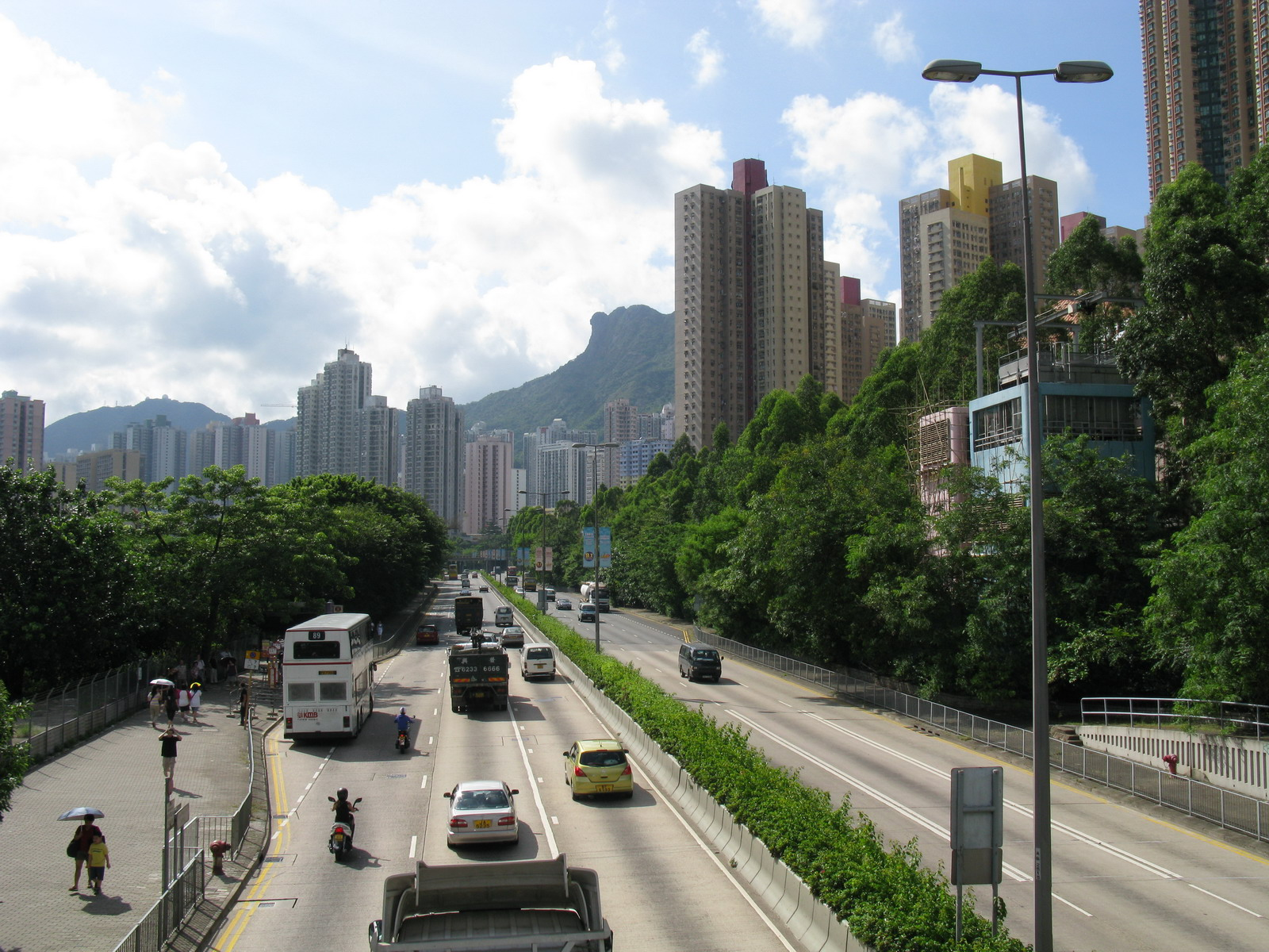 Lung Cheung Road, Diamond Hill